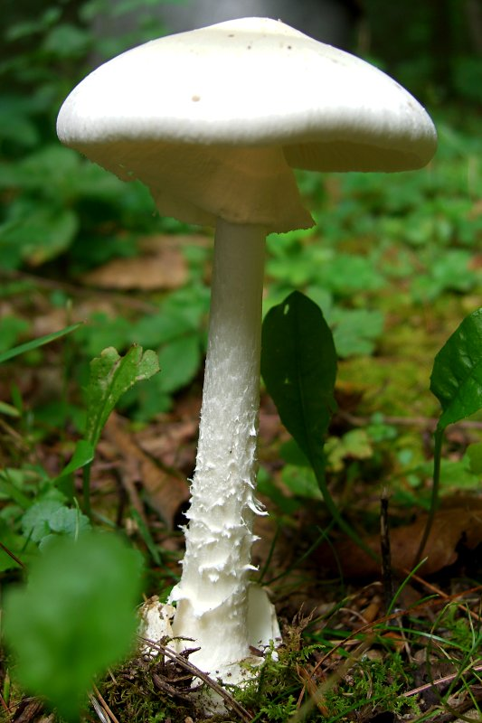 Scientific Name: Amanita virosa Secr. Common Name: Destroying Angel Certainty: pretty sure (notes) Location: Southern Appalachians; Smokies; CabinCove